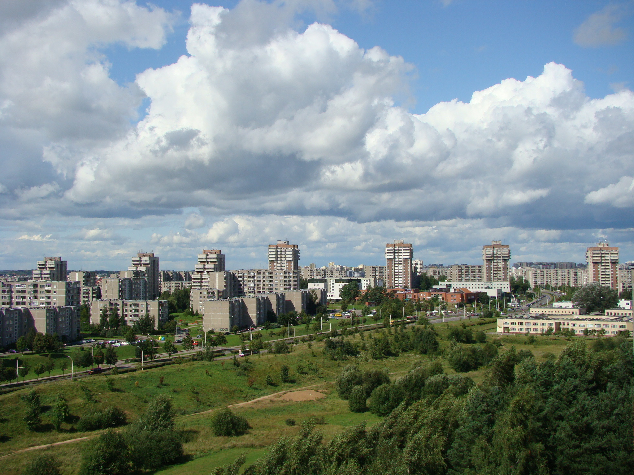 Panoramic view of Justiniškes, Vilnius